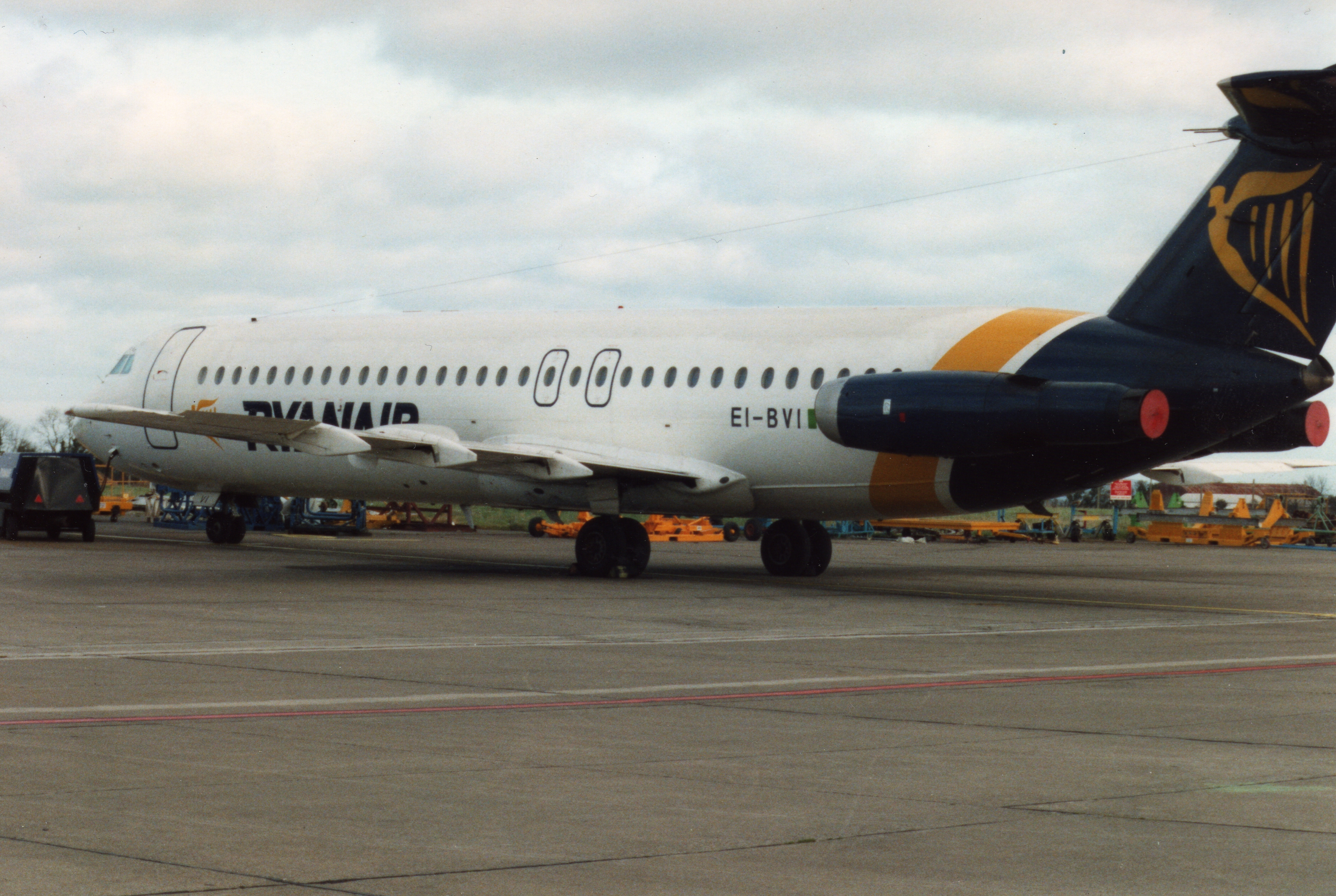 Ryanair (EI-BVI) BAC 111-525FT aircraft, Dublin Airport, Dublin, Republic of Ireland, February 1993